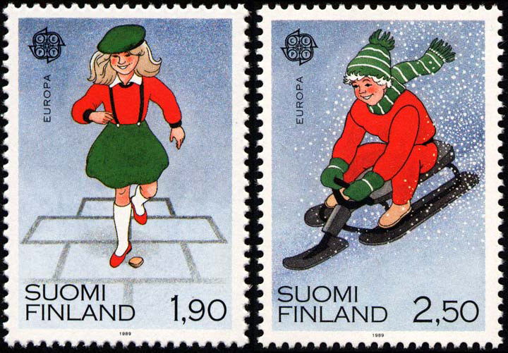 Postage stamps of Finland, 1989. Issue on the Europa-CEPT program.